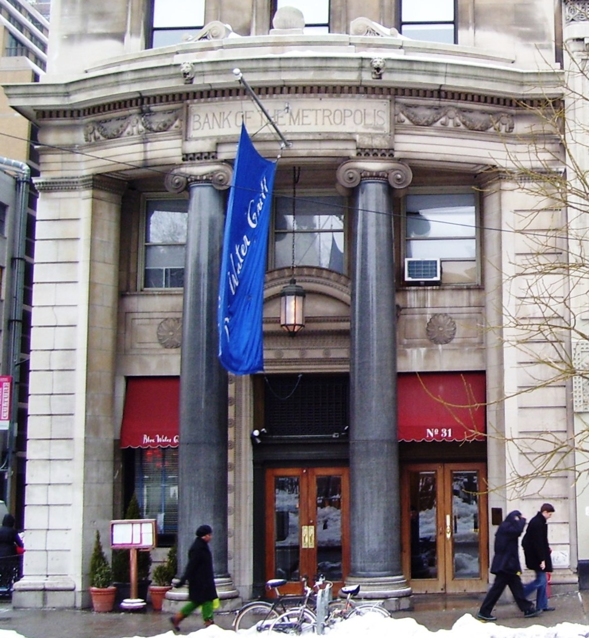 The Bank of the Metropolis Building, at 31 Union Square West in Manhattan, New York City.